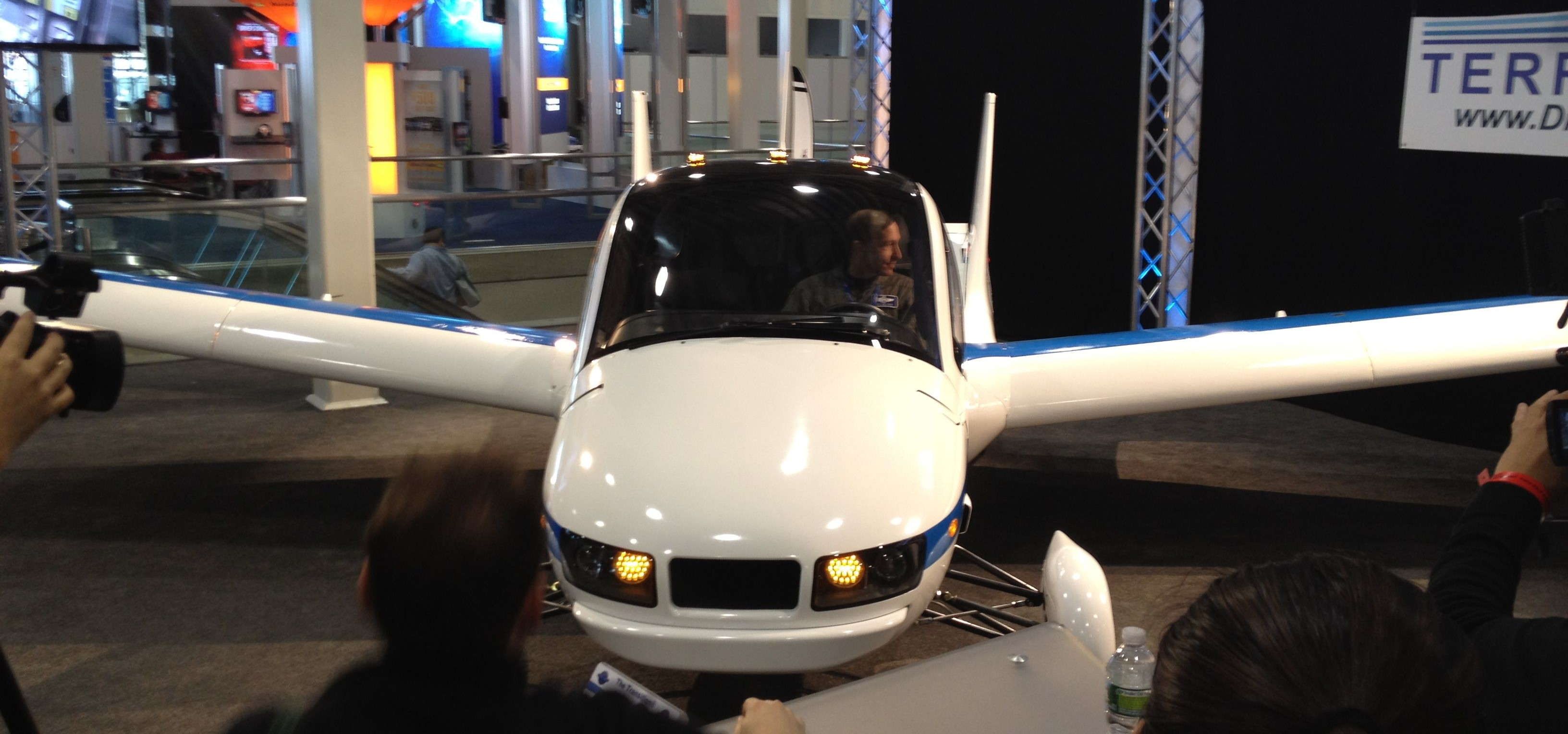 Possibly the most talked about "car" will be the Terrafugia Flying Car as it will be landing at the 2012 New York International Auto Show. This flying car is said to be capable of getting 35 mpg when on the road and up to 400 to 450 miles when in the air. The Terrafugia seats two people and also comes with four wheels, two wings, air bags, and a parachute if you purchase one, but they are not cheap as they have been priced at $279,000. Pictures courtesy of LotPro's own Steve Cypher. Follow the 2012 NYIAS live as it happens.